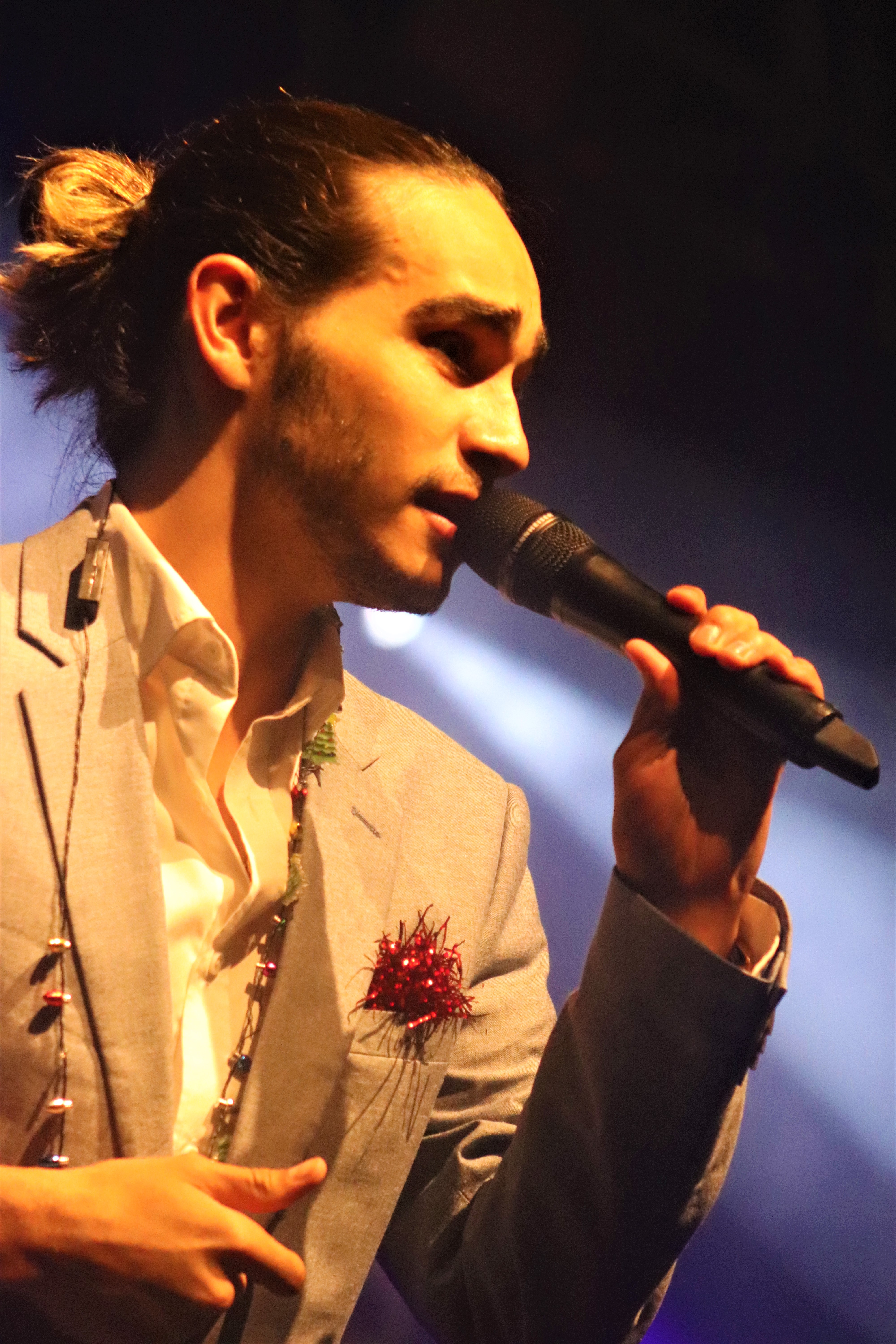 Isaiah Firebrace is seen singing at the Avondale School Community Christmas Carols on the 1st December, 2019.